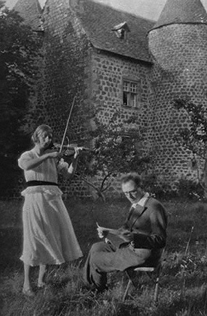 A 1933 photograph of two composers.